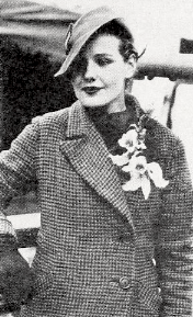 Photo of Frances Farmer taken after winning writing contest prize to Soviet Union, April 10, 1935